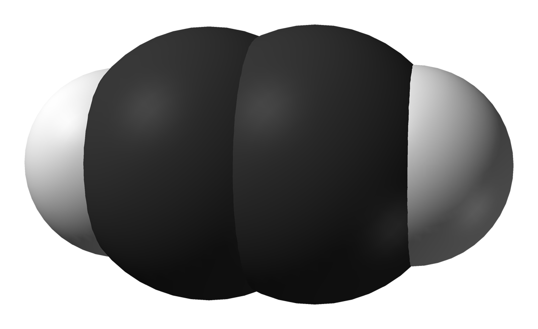 Space-filling model of the acetylene (ethyne) molecule, C2H2. Structural information (determined by infrared spectroscopy) from CRC Handbook, 88th edition. Image generated in Accelrys DS Visualizer.